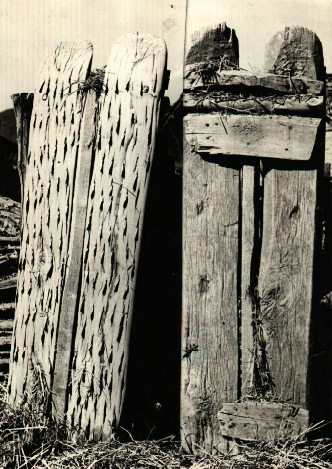 Threshing board, Image from the fund of Hristo Vakarelski